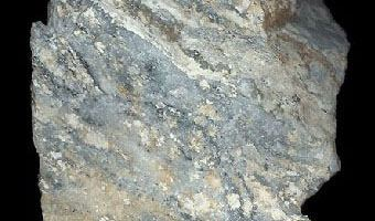 Metamorphosed limestone, marble, Banská Štiavnica, Slovakia